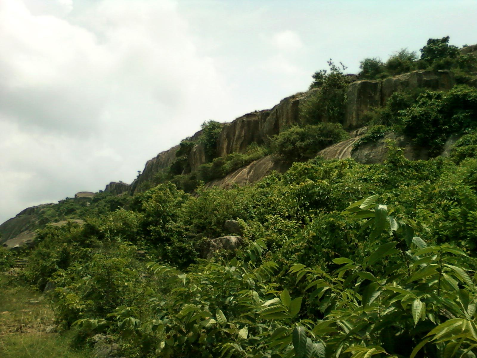 Dry deciduous Jungles at Ramatheertham, Vizianagaram district